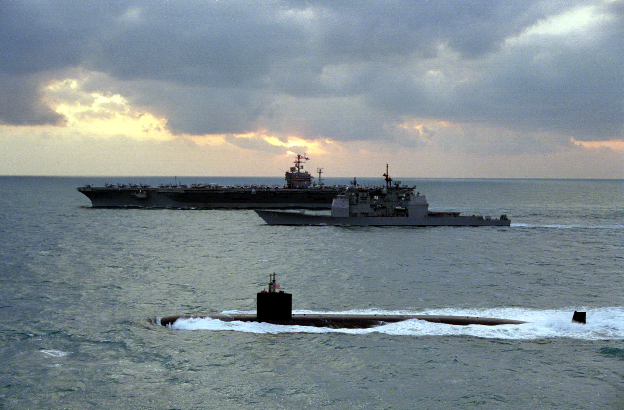 971215-N-9785M-462 ABOARD USS NIMITZ (Dec 15, 1997)--The guided missile cruiser USS Port Royal (CG 73) (left), and the nuclear powered submarine USS Annapolis (SSN 760) steam in formation with the nuclear powered aircraft carrier USS Nimitz (CVN 68). The Nimitz battle group is currently deployed to the North Persian Gulf in support of Operation Southern Watch. U.S. Navy photo by Photographer’s Mate 2nd Class Matthew J. Magee (Released)